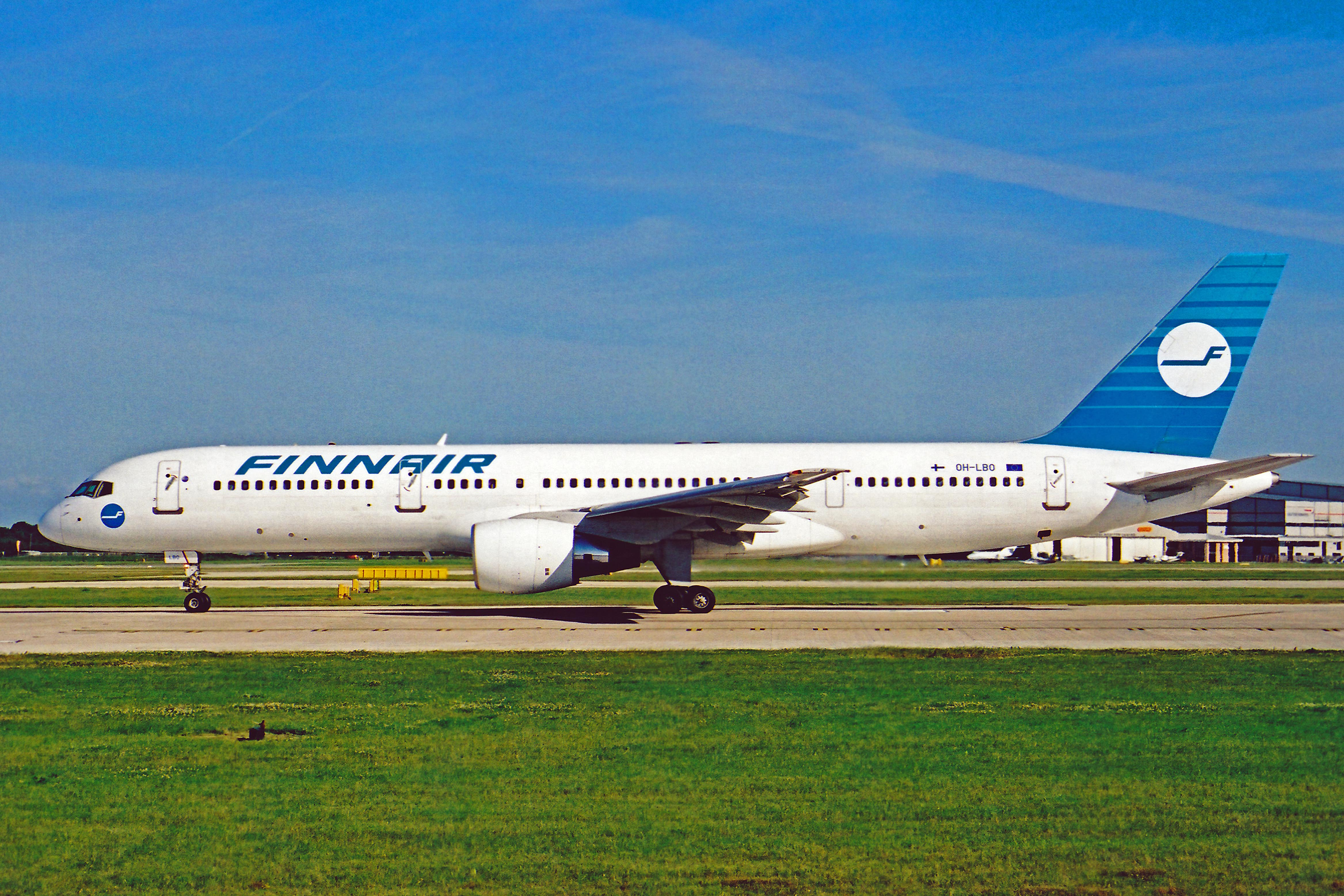 Boeing 757-2Q8 aircraft (OH-LBO) of Finnair at Manchester Airport in June 2002.